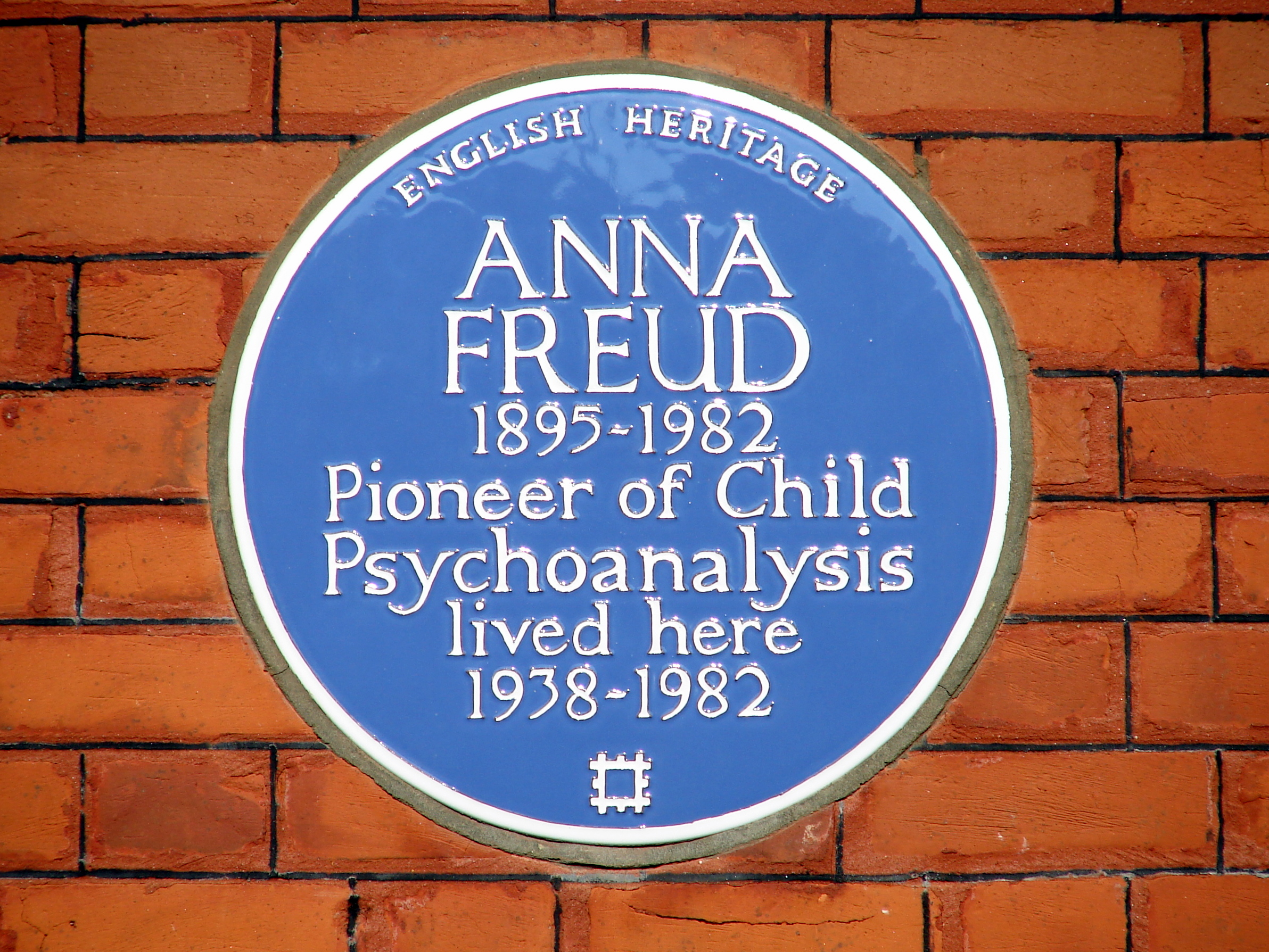 Anna Freud. Plaque erected in 2002 by English Heritage at 20 Maresfield Gardens, Hampstead, London NW3 5SX, London Borough of Camden